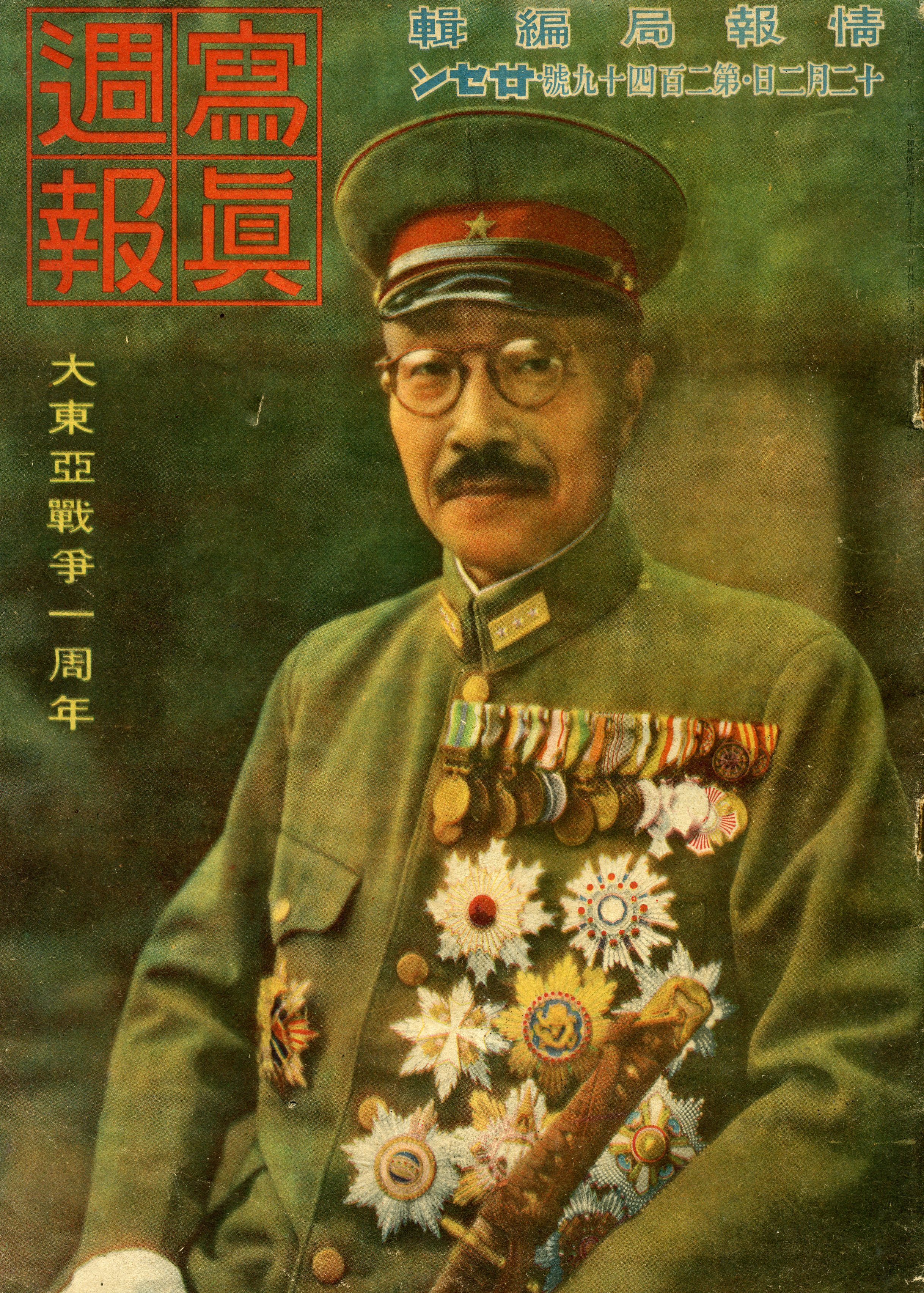 Shashin Shuho No 249 (December 2, 1942), First Anniversary of the Great East Asia War. This is the noble figure of Prime Minister Hideki Tojo.